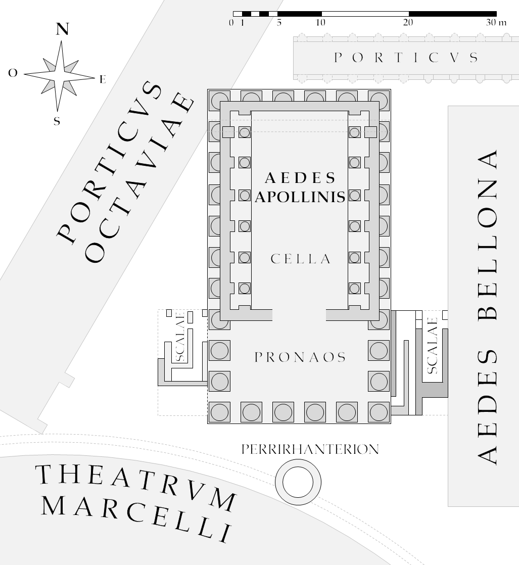 Map of the Temple of Apollo Sosianus D'après : - Rodolfo Lanciani, Forma Urbis Romae, Roma, 1893-1901 - Marco di Mauro, Il tempio di Apollo Medico a Roma, croce degli archeologi, 2002 - Massimo Vitti, Note di topografia sull’area del Teatro di Marcello, MEFRA, 2010